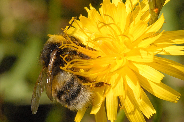 Bombus soroeensis (ssp proteus, or Bombus lucorum) from Commanster, Belgian High Ardennes .